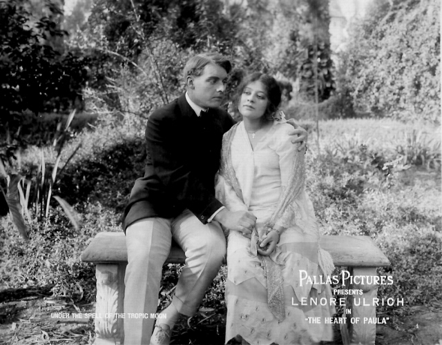 Forrest Stanley and Lenore Ulrich (aka Lenore Ulric) in The Heart of Paula (1916) - publicity still.